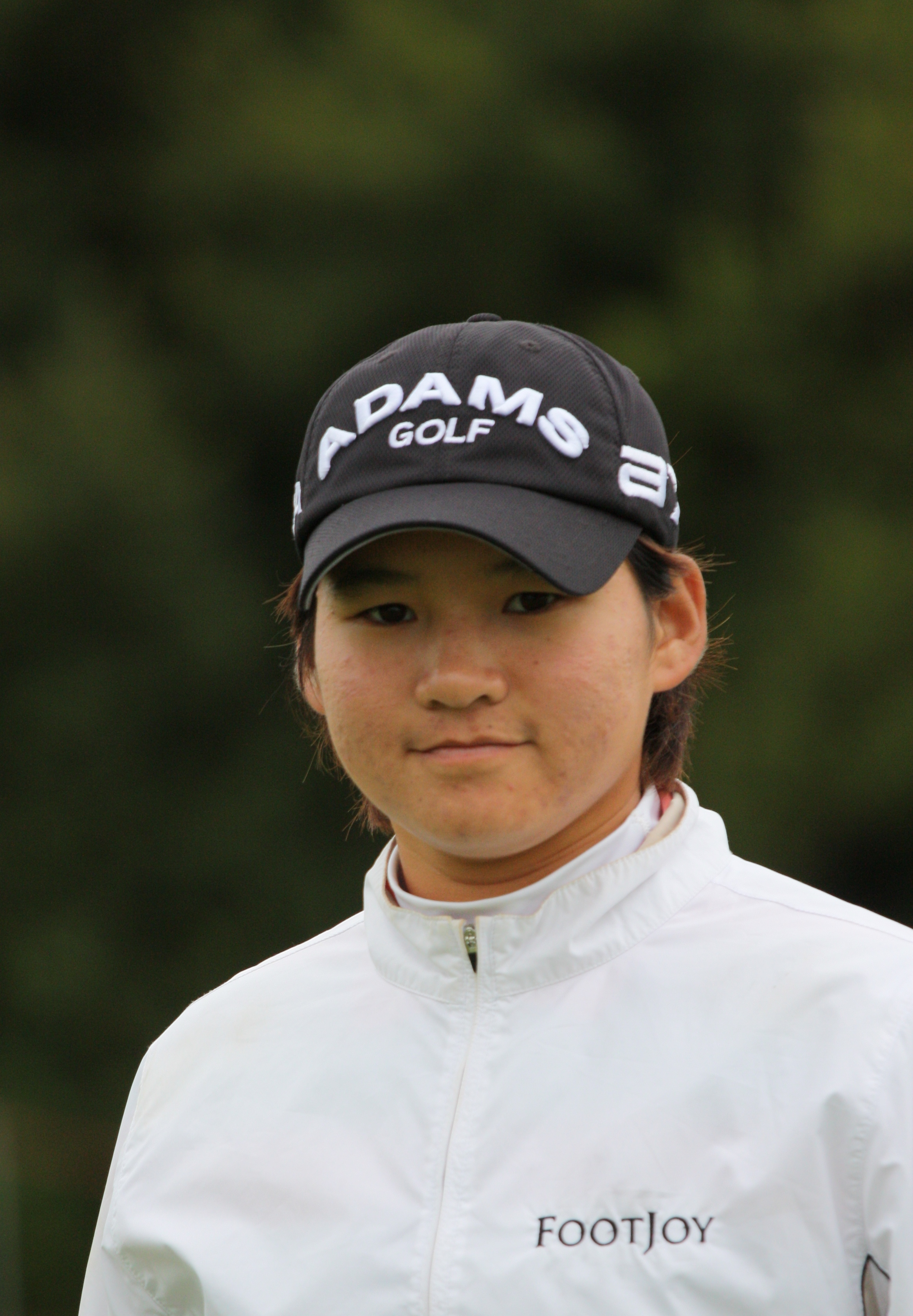 LYTHAM ST ANNES, UNITED KINGDOM - JULY 29: Yani Tseng of Taiwan walks off the 11th green during third practice round before 2009 Ricoh Women's British Open held at Royal Lytham & St Annes on July 29, 2009 in Lytham St Annes, England. (Photo by Wojciech Migda)